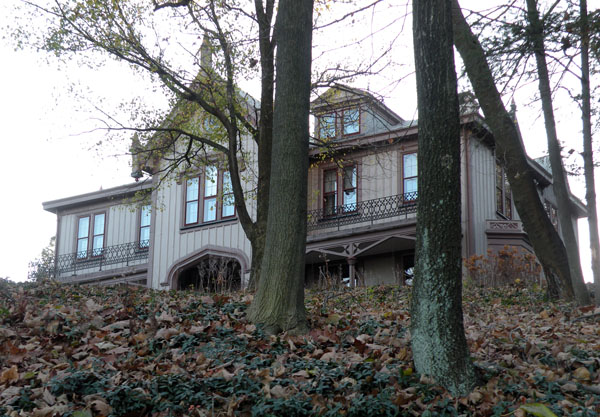 Picture of the Hill - McCallam - Davies House, one of the four houses of Evergreen Hamlet, located on Evergreen Hamlet Road (Rock Ridge Road) in Ross Township, Allegheny County, Pennsylvania, on November 14, 2009. Evergreen Hamlet was a planned community that was founded by William Shinn in 1851. The house in this picture was probably built in 1852. Architect: Joseph W. Kerr (1815-1888). Kerr likely designed all four of the Evergreen Hamlet houses. Architectural style: Gothic Revival. :*Evergreen Hamlet is listed on the National Register of Historic Places. The Evergreen Hamlet houses are on private property, so I took the best picture that I could from Evergreen Hamlet Road (Rock Ridge Road). If anyone manages to get a nicer picture, feel free to replace this image with a better one.